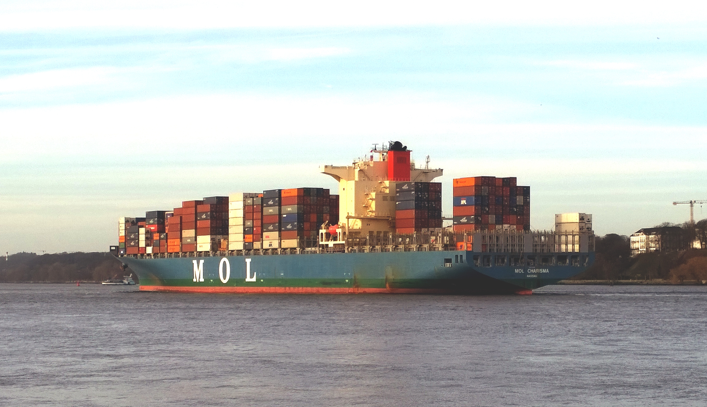 Container ship MOL Charisma starting Hamburg, the Elbe down, in January 2015